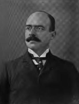 Portrait of James M. E. O'Grady, Speaker of the New York State Assembly Other information none